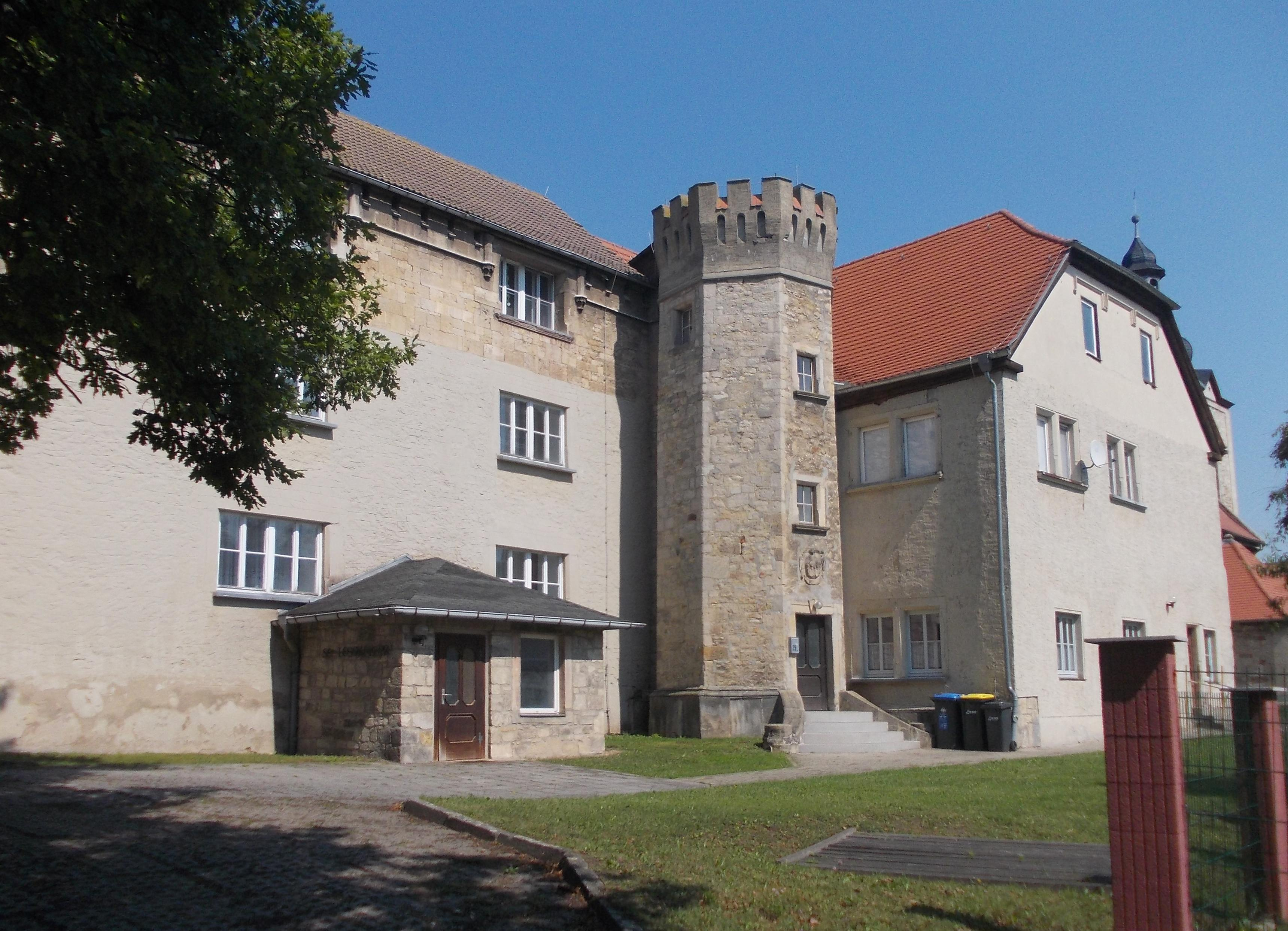 Klosterhäseler Castle (An der Poststrasse, district: Burgenlandkreis, Saxony-Anhalt)